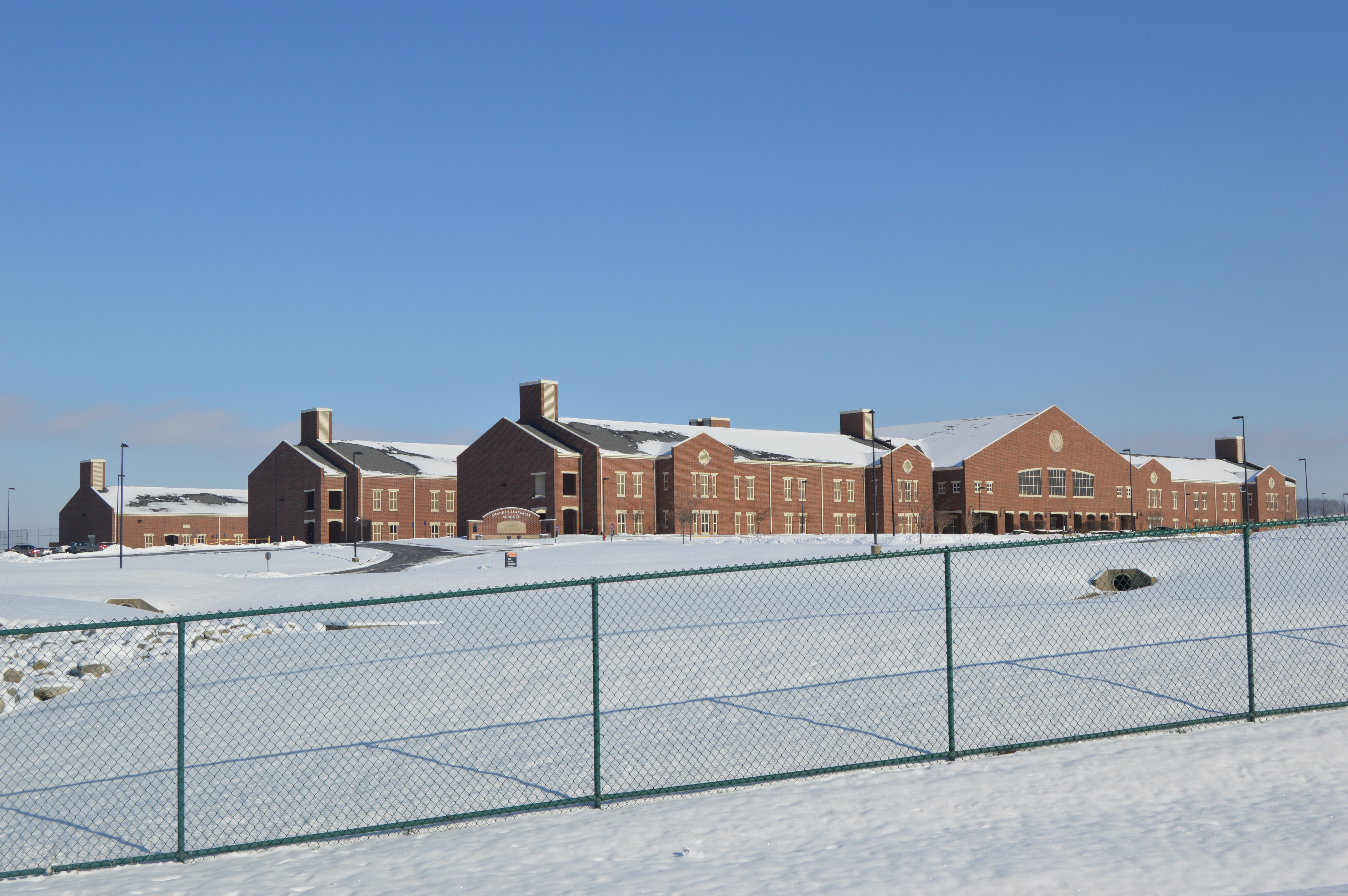 Overview from the south of Amanda-Clearcreek High School, located at 328 E. Main Street in Amanda, Ohio, United States.